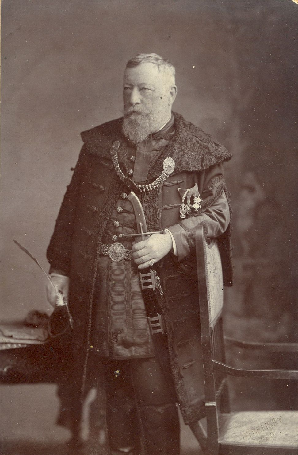 Endre Thék